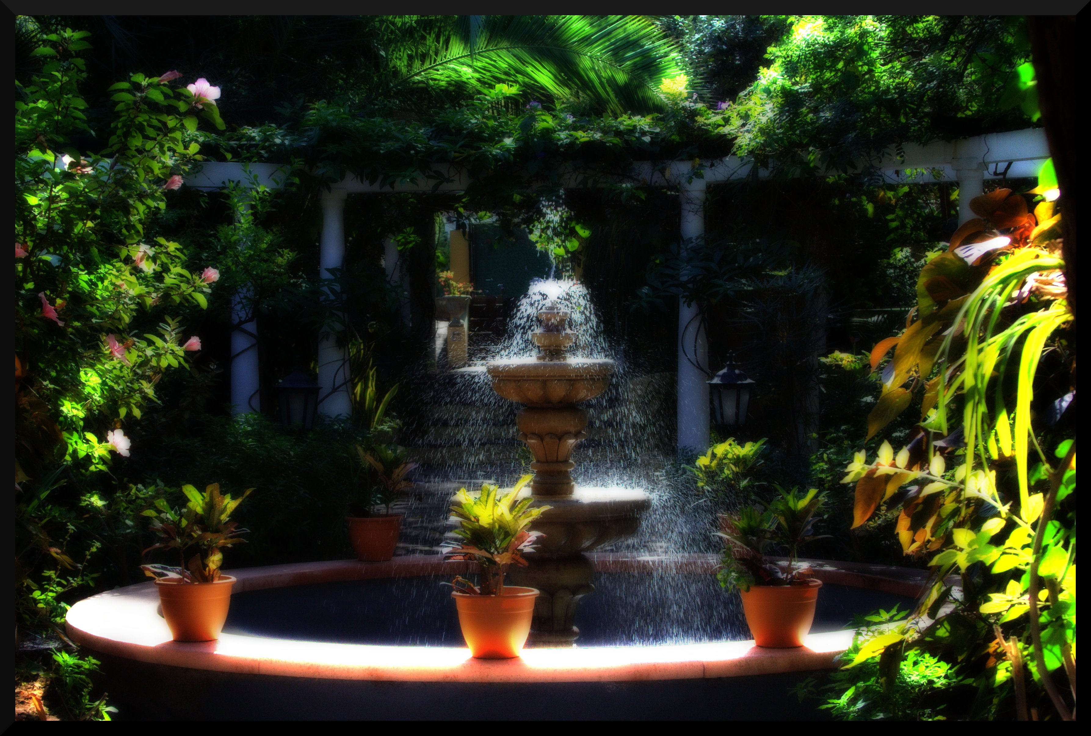 Inside the orchid garden "Sitio Litre" in Puerto de la Cruz, Tenerife.